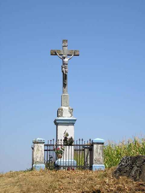 Crucifix in Virje , Novigrad